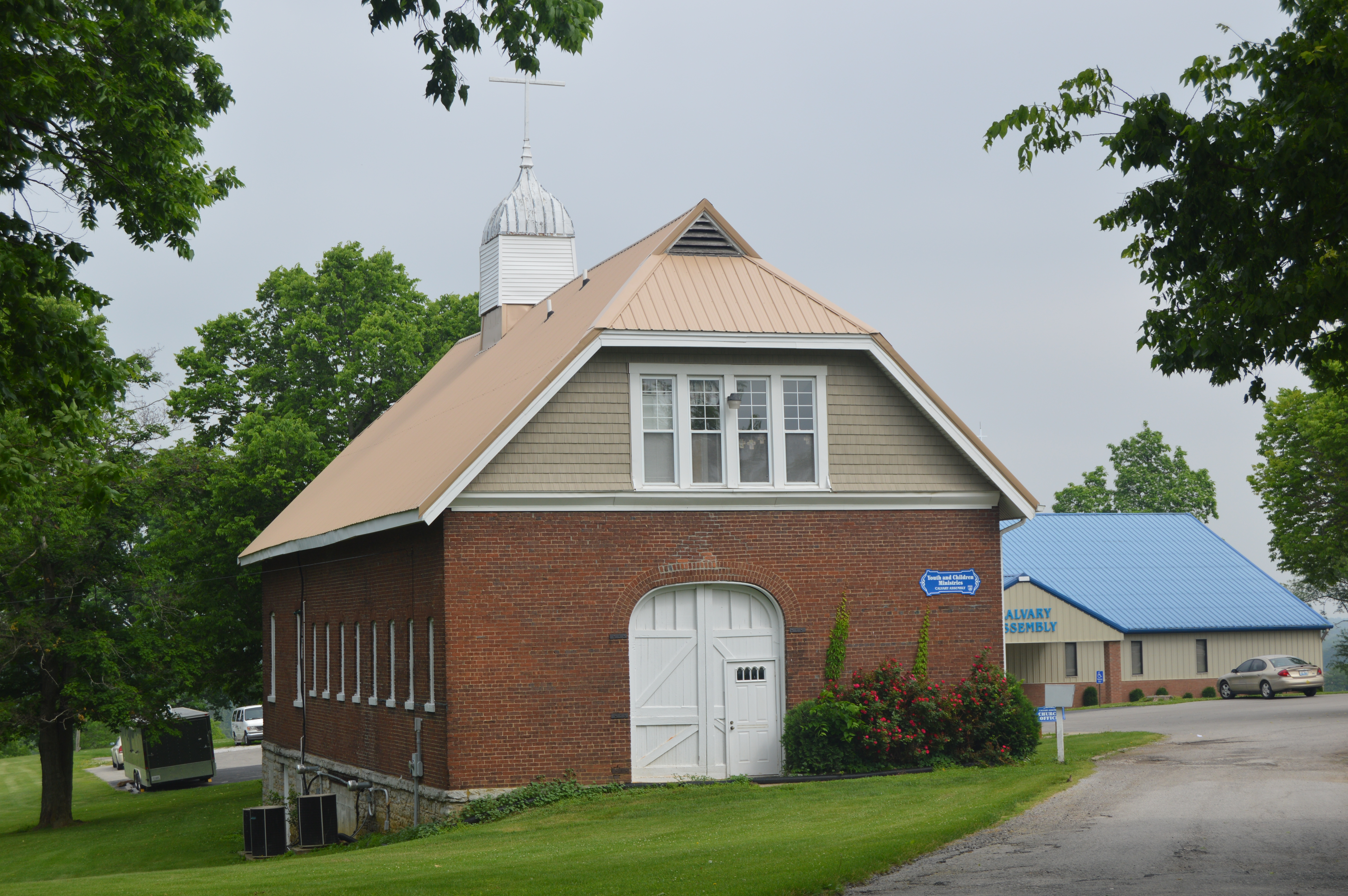 Rear of what was originally the large carriage house on the Monticello estate in Cynthiana, Kentucky, United States, with the site of the mansion (now occupied by a church) in the background. Monticello was listed on the National Register of Historic Places in 1974, and although destroyed by fire in 1985, it has not yet been un-designated.